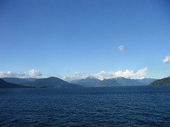 Howe Sound looking north from the Bowen Island ferry